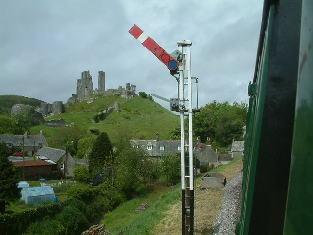 Corfe Castle, From The Train. A trip on the Swanage Railway takes you right past Corfe Castle.